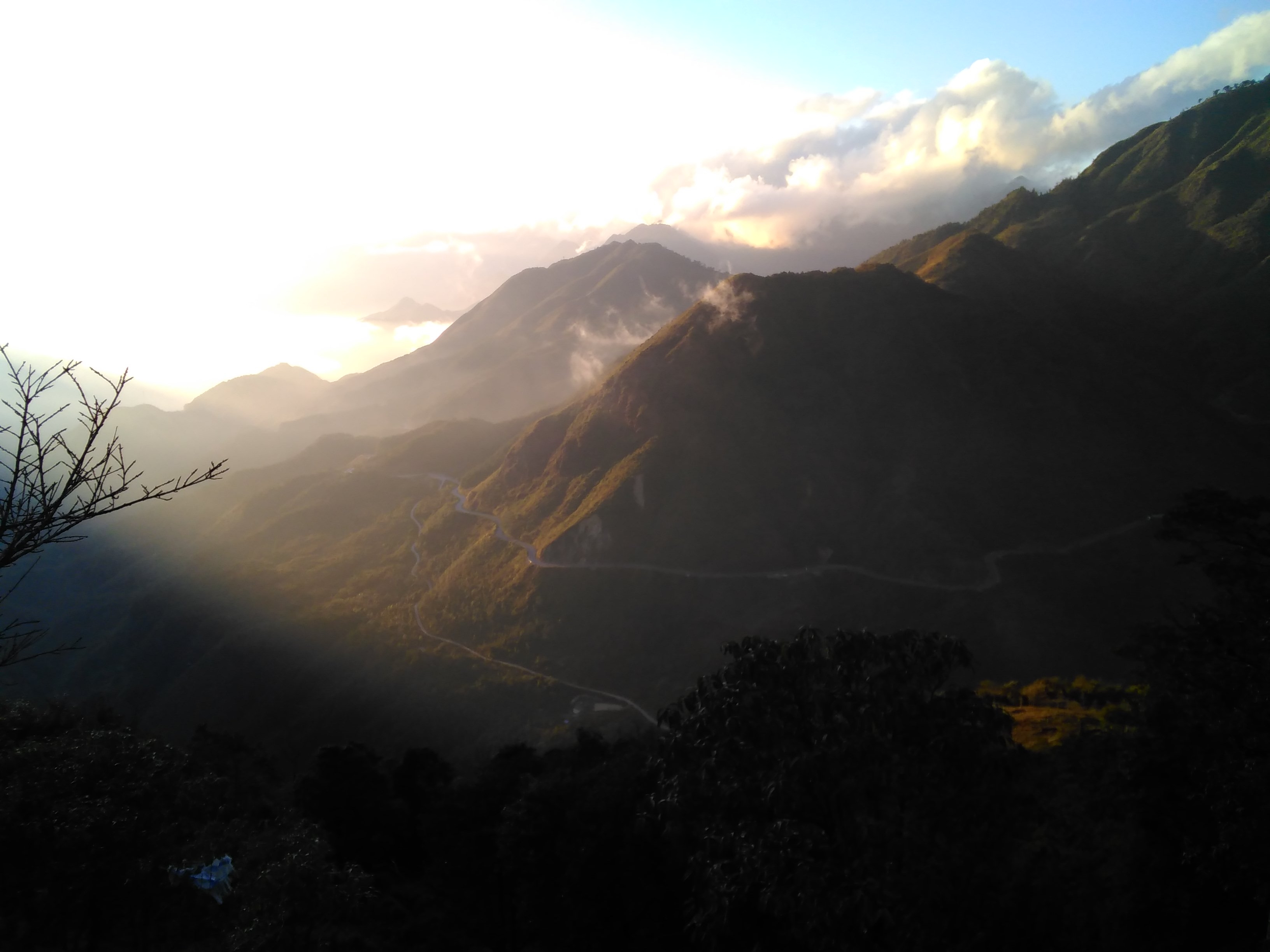 Sunset on O Quy Ho pass